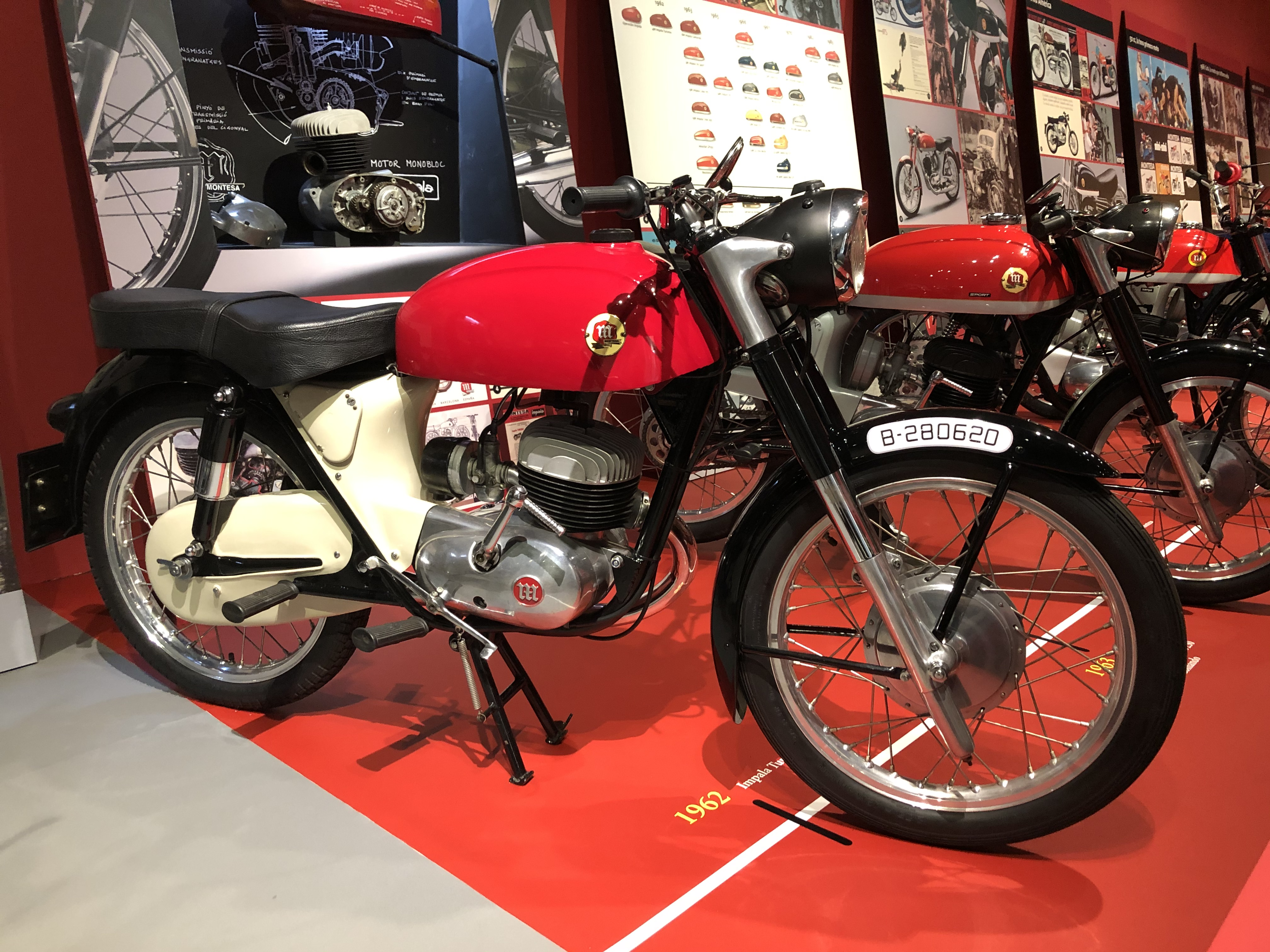 Montesa Impala Turisme (1962), Mod. 4M, 174.7 cc